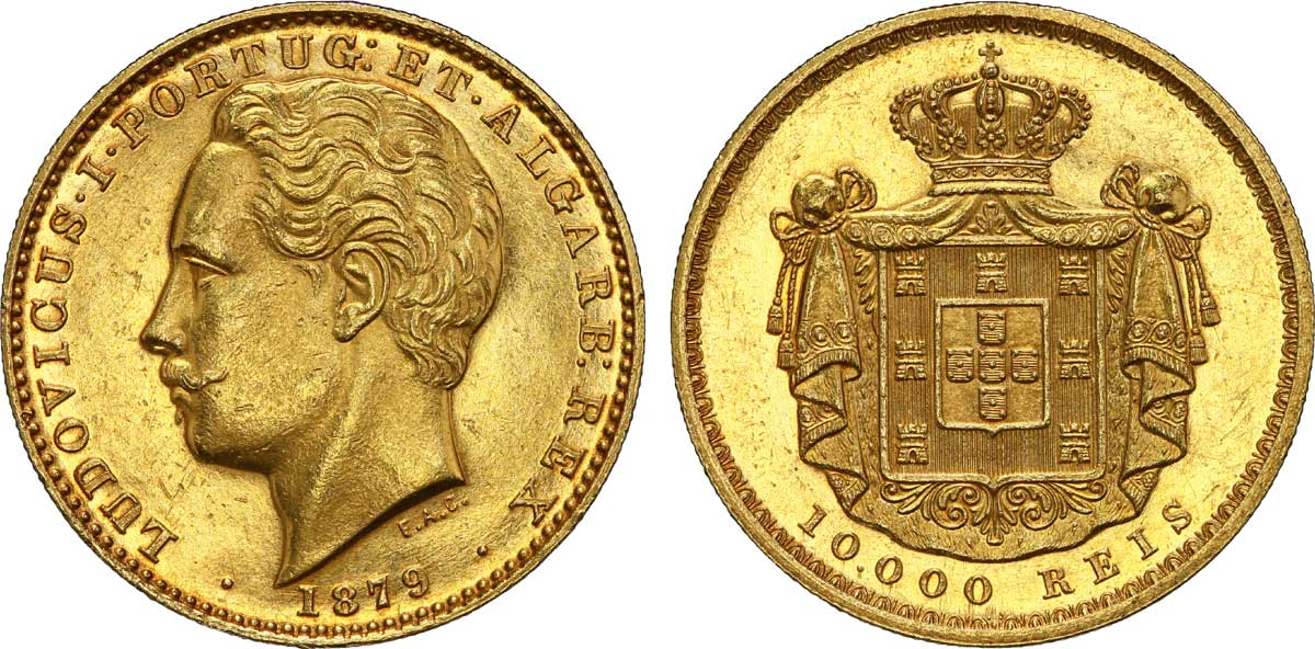 10000 Reis à l'effigie de Louis Ier, 1879